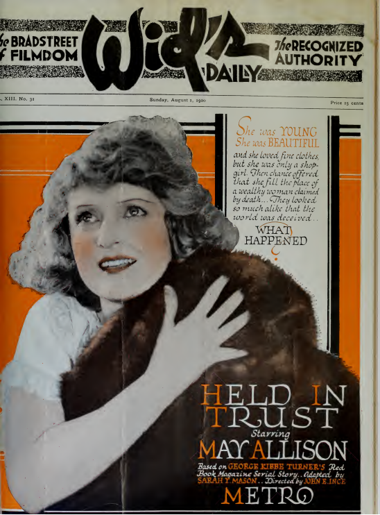 May Allison in the American romance film Held In Trust (1920), a film by John E. Ince.